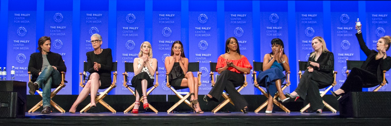 Scream Queens Cast at 2016 Paleyfest from left to right : Brad Falchuk, Jamie Lee Curtis, Emma Roberts, Lea Michele, Niecy Nash, Keke Palmer, Abigail Breslin, Billie Lourd